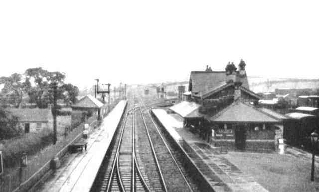 Gaerwen railway station, looking west. Presumably photographed from footbridge